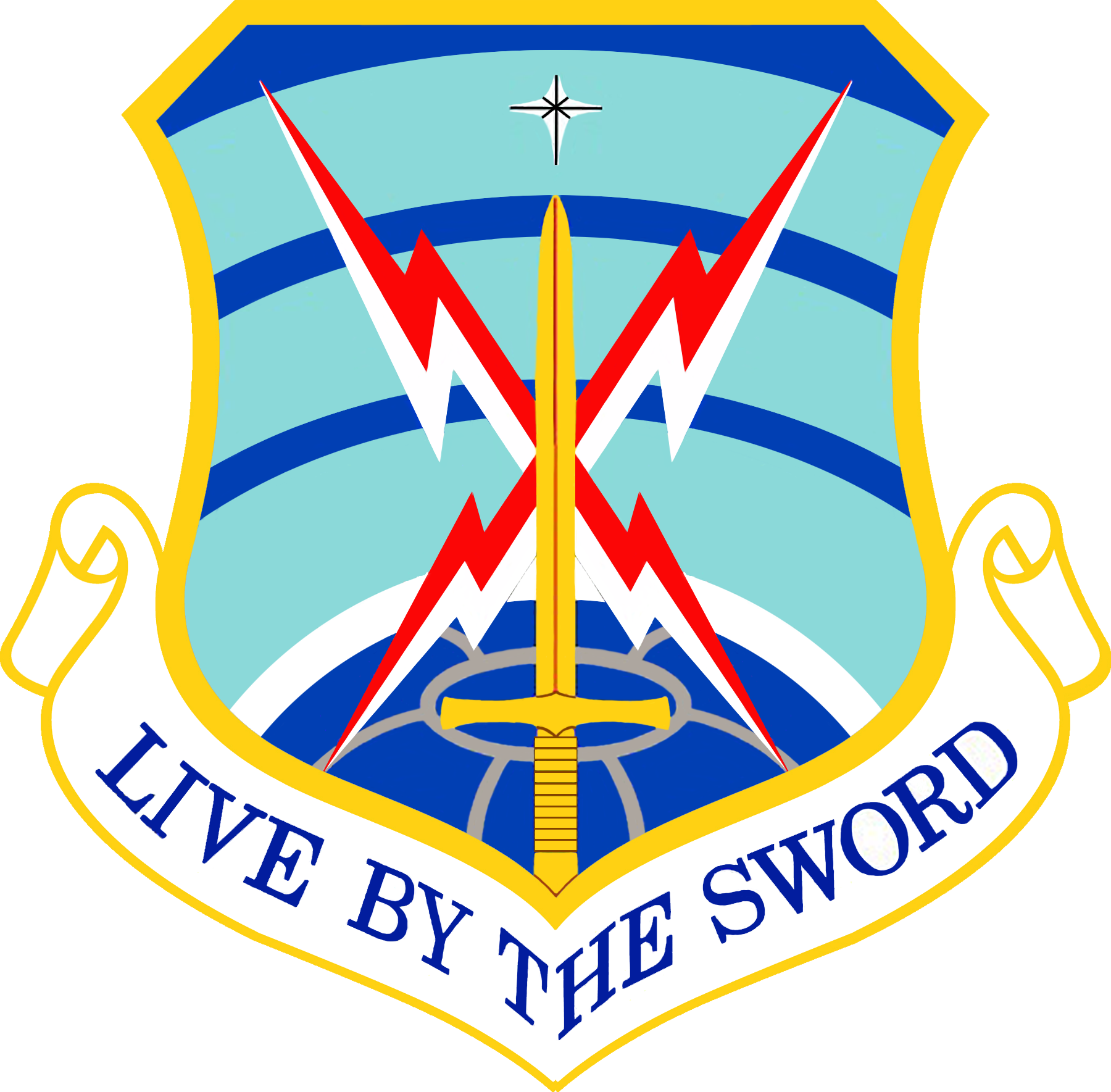 United States Air Force 3d Combat Communications Group emblem. Made with Photoshop.